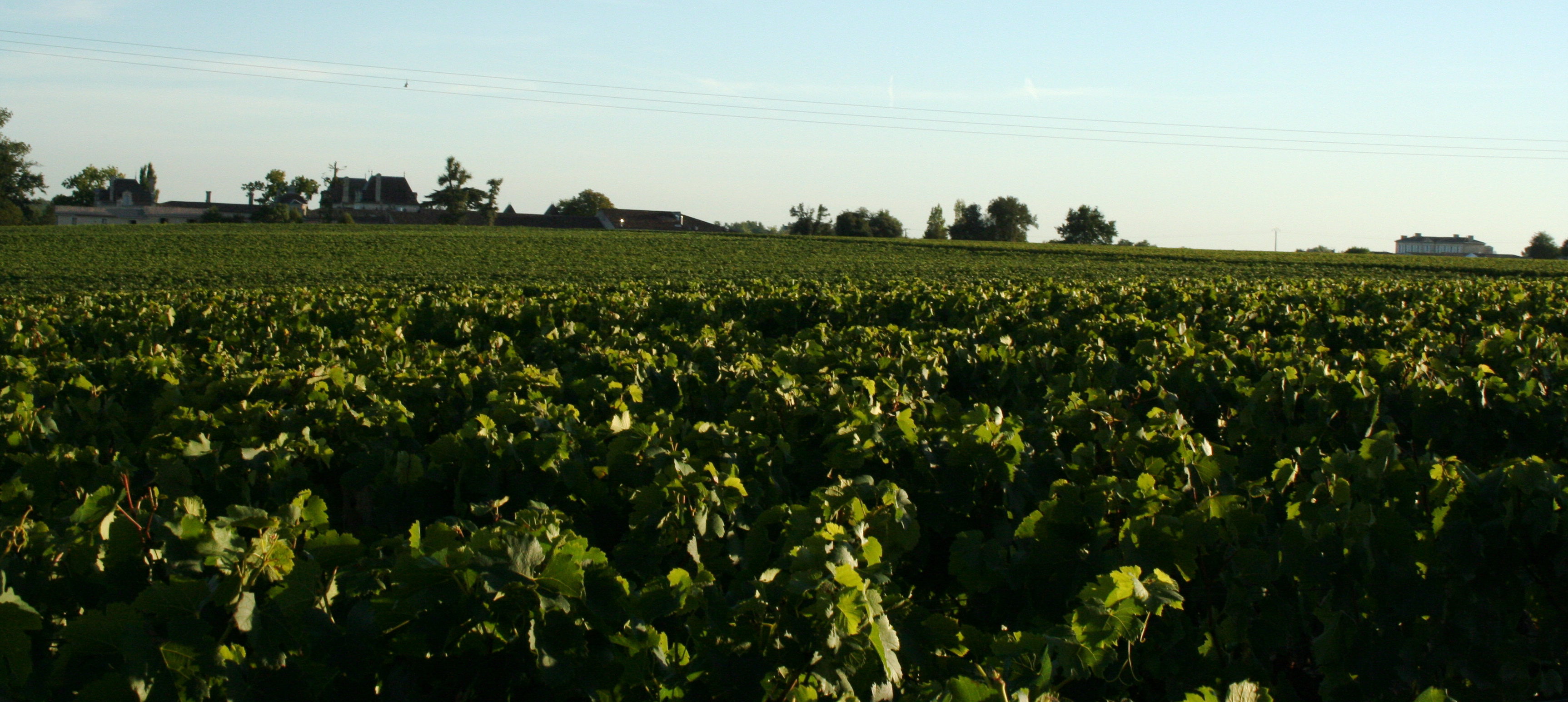 In the French wine region of Bordeaux